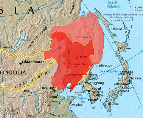 Map of Manchuria. See Manchuria for a description of the dark, medium, and light red areas. Inner Manchuria. North region of Inner Mongolia. Outer Manchuria.